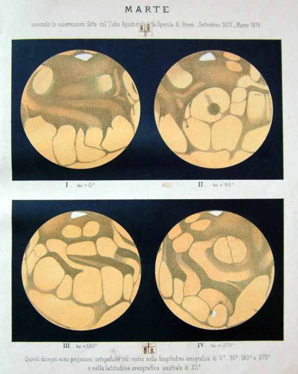 Four orthographic views of Mars by Giovanni Schiaparelli, according to observations he made at Brera Observatory from September 1877 to march 1878. The views are centered on areographic longtitude 0°, 90°, 180°, 270° and areographic latitude 25°.